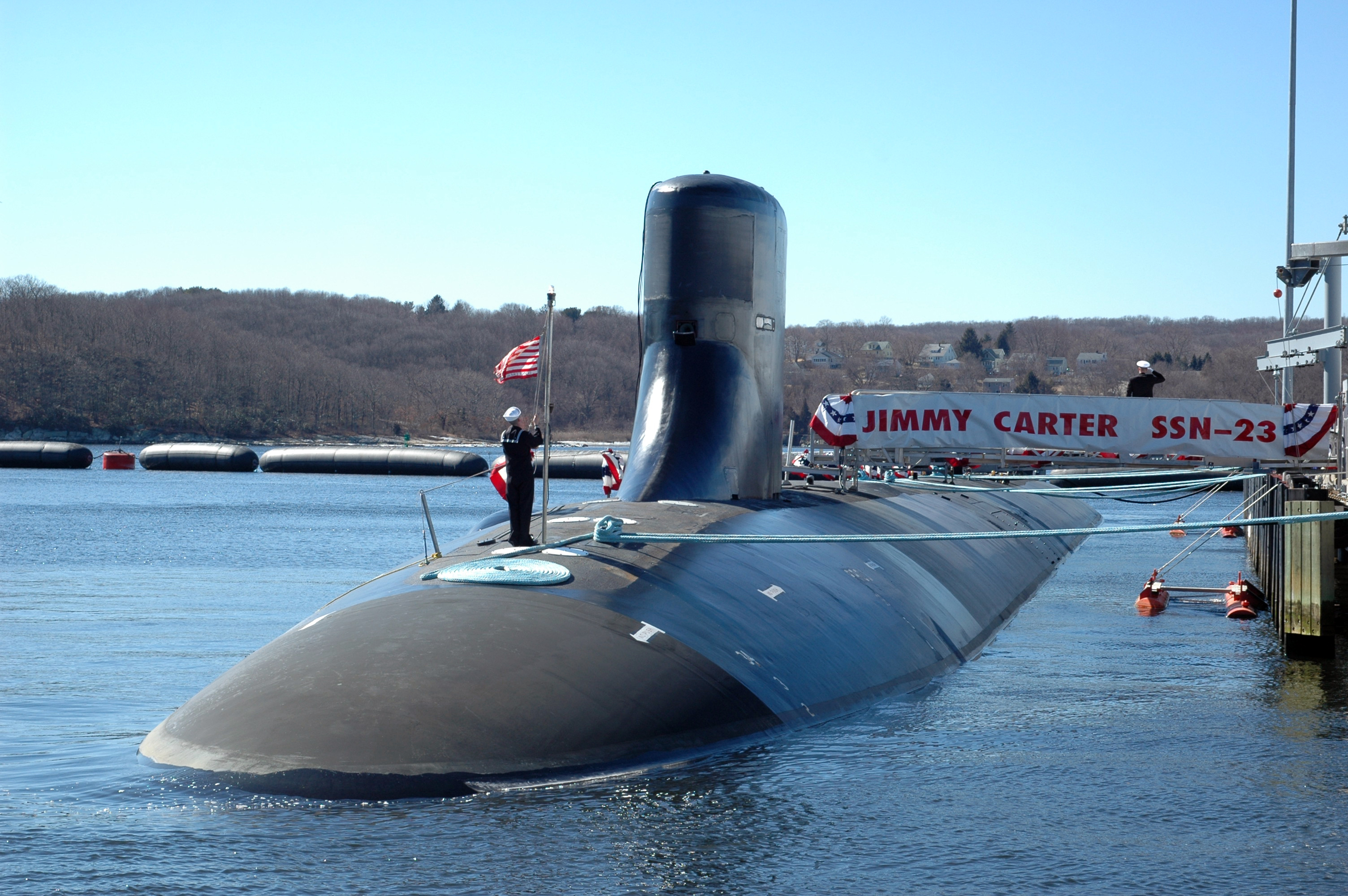 050219-N-9954T-071 Naval Submarine Base Groton, Conn. – A Sailor raises the Stars and Stripes aboard the Seawolf-class nuclear-powered attack submarine USS Jimmy Carter (SSN 23) during the submarine’s commission ceremony. Jimmy Carter is the third and final submarine of the Seawolf-class. A unique feature of the Jimmy Carter is a 100-foot hull extension called the Multi-Mission Platform, which provides enhanced payload capabilities, enabling the submarine to accommodate the advanced technology required to develop and test a new generation of weapons, sensors and undersea vehicles.